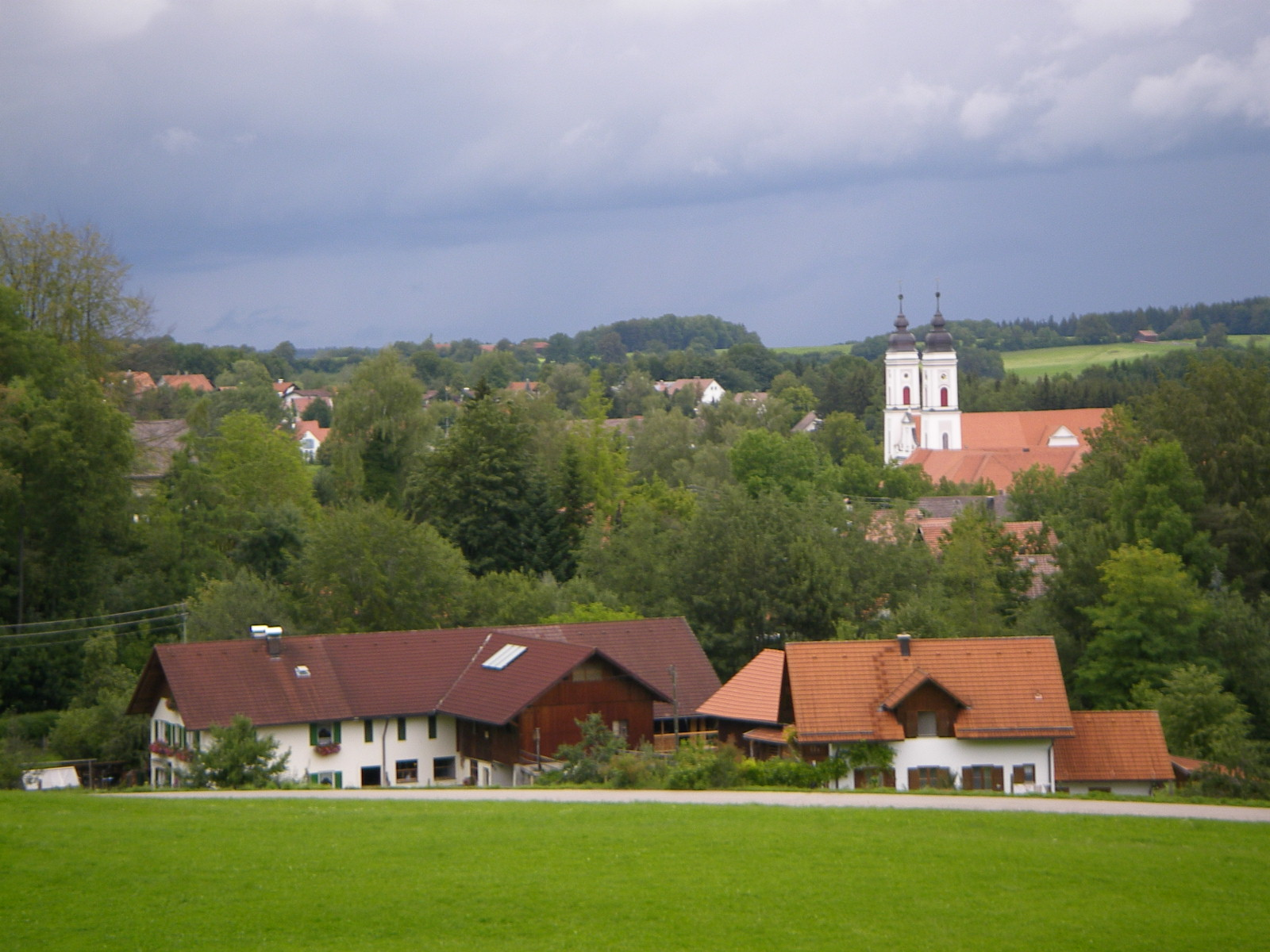 Irsee, Allgäu, Germany picture taken by User Alraune on 27.8.2006